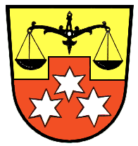 Coat of Arms of Eschau